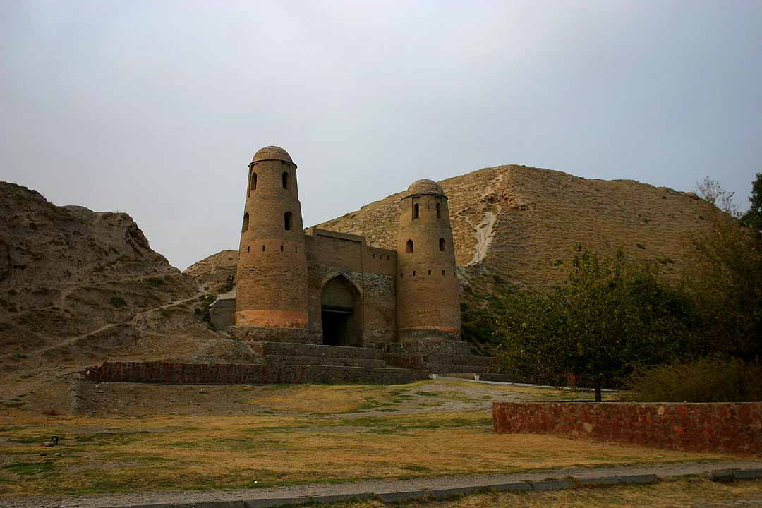 An old castle in Hisor, XV – XVII centuries, Tajikistan